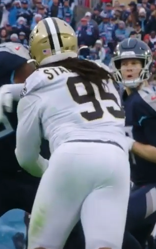 Taylor Stallworth 2019. Image from video Tajae Sharpe Goes Up High for 4th Quarter TD | Touchdown Tuesday, ~ 00:02